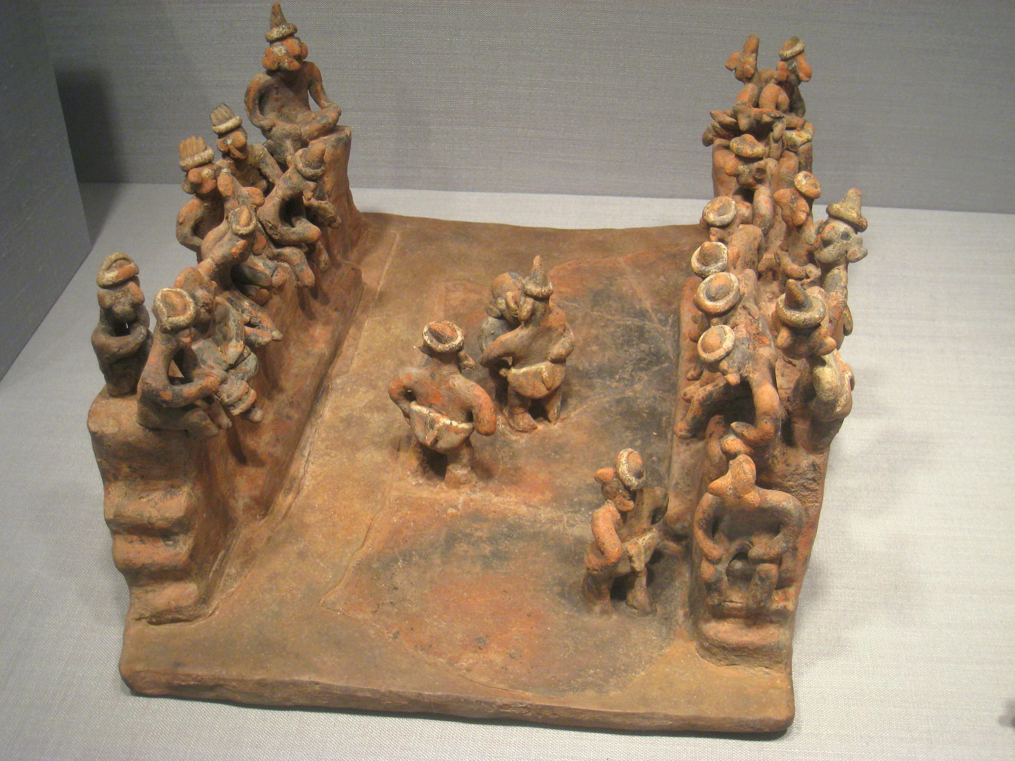 Model of Ball Game Scene, Mexico, State of Nayarit, 200 BC - 500 AD, ceramic, Pre-Columbian collection in the Worcester Art Museum, Worcester, Massachusetts, USA. The museum permits photography and does not restrict usage of the photographs.